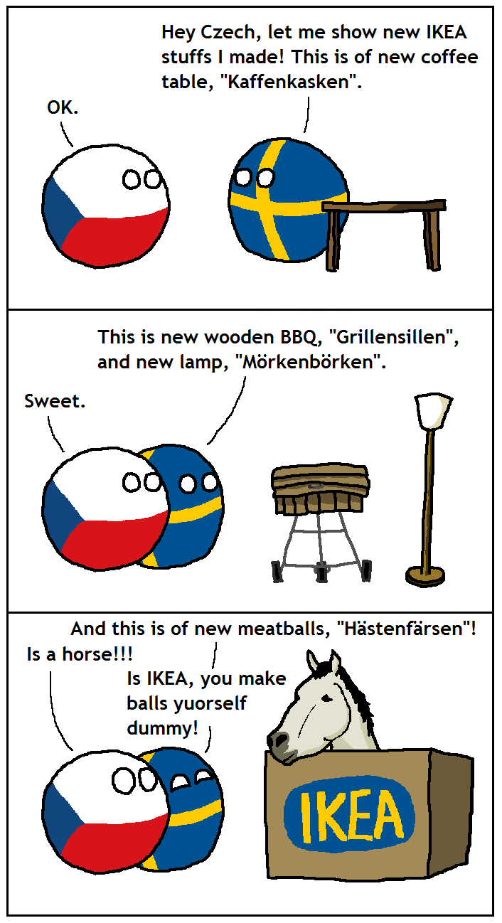 Polandball comic on the news that IKEA has stopped selling meatballs, after they were found to contained horsemeat (news link)